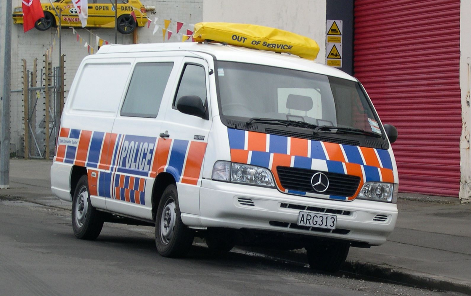 1999–2004 Mercedes-Benz MB140D van (New Zealand Police), photographed in New Zealand.